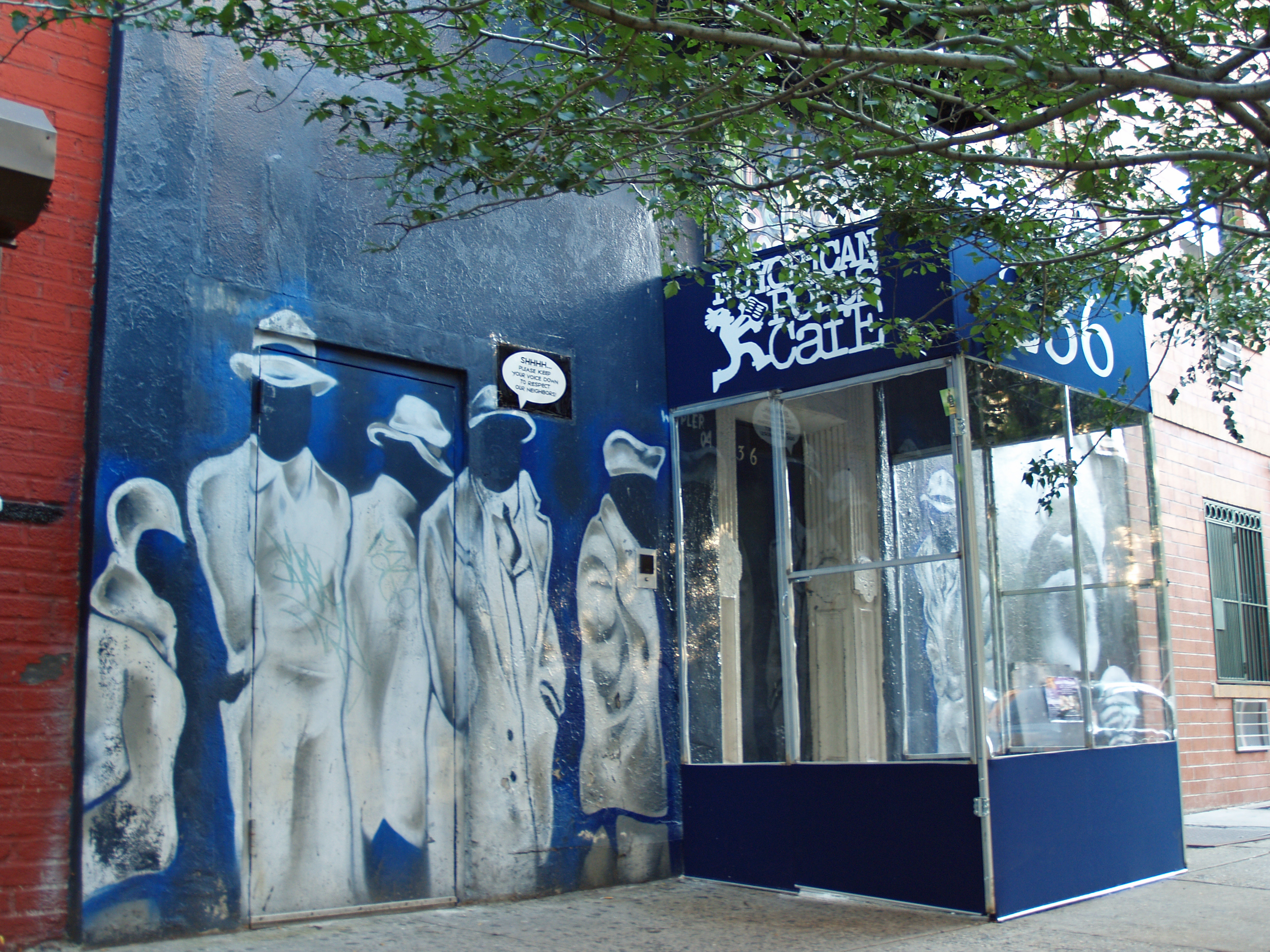 Exterior of the Nuyorican Poets Cafe in the Loisaida section of New York City.